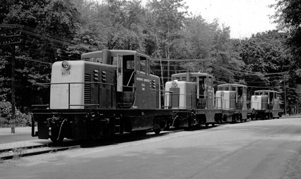 These diesel-electric locomotives replaced steam models, which were more dangerous around explosives. At the same time, war surplus supplies allowed Picatinny to make four additions to its fleet of 65-ton diesel-electric locomotives and therefore dispose of its steam models. The diesel-electrics were less dangerous around explosives.